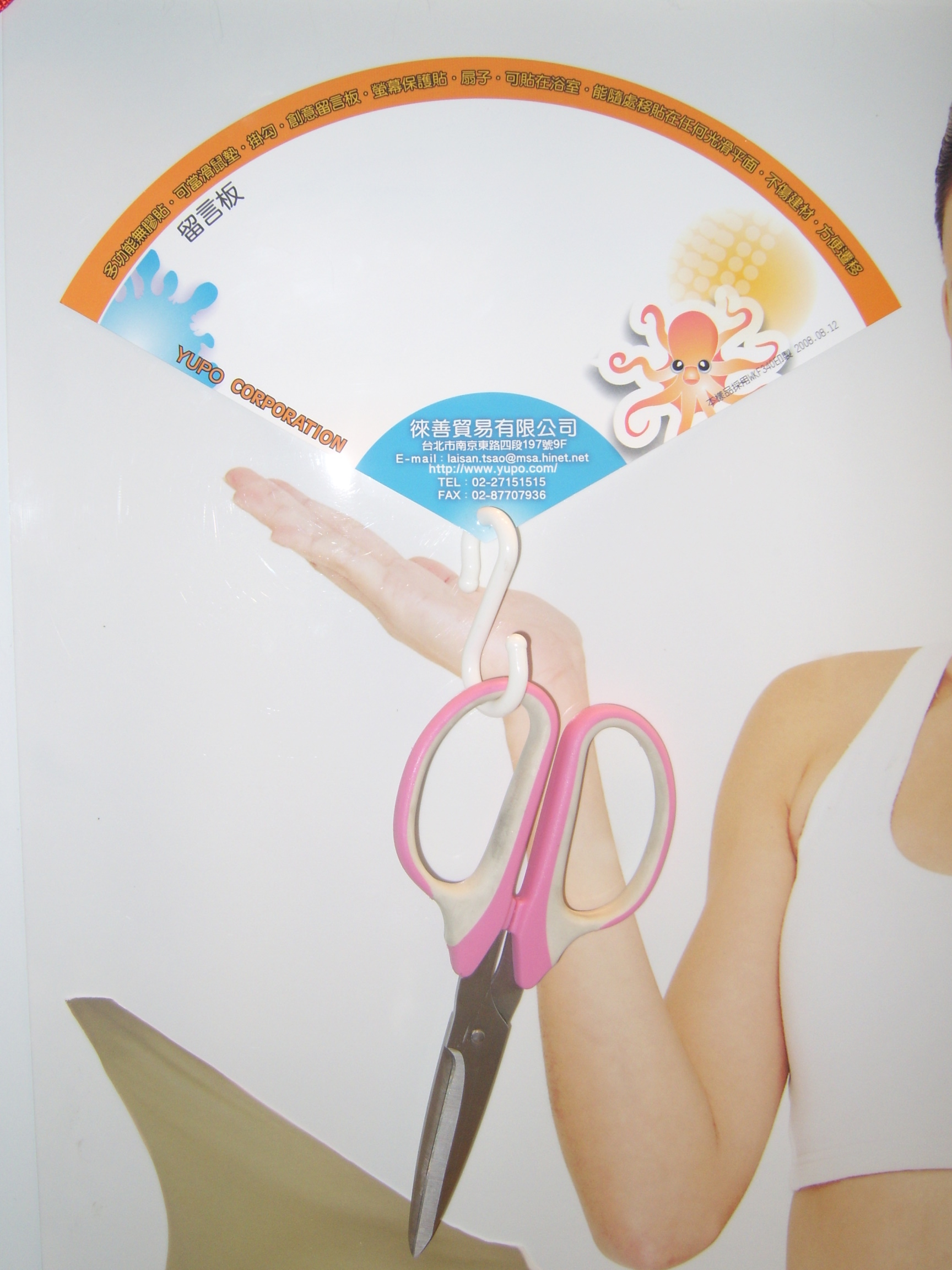 2008 TIGAX: Yupo - A sample of slap-sticker.